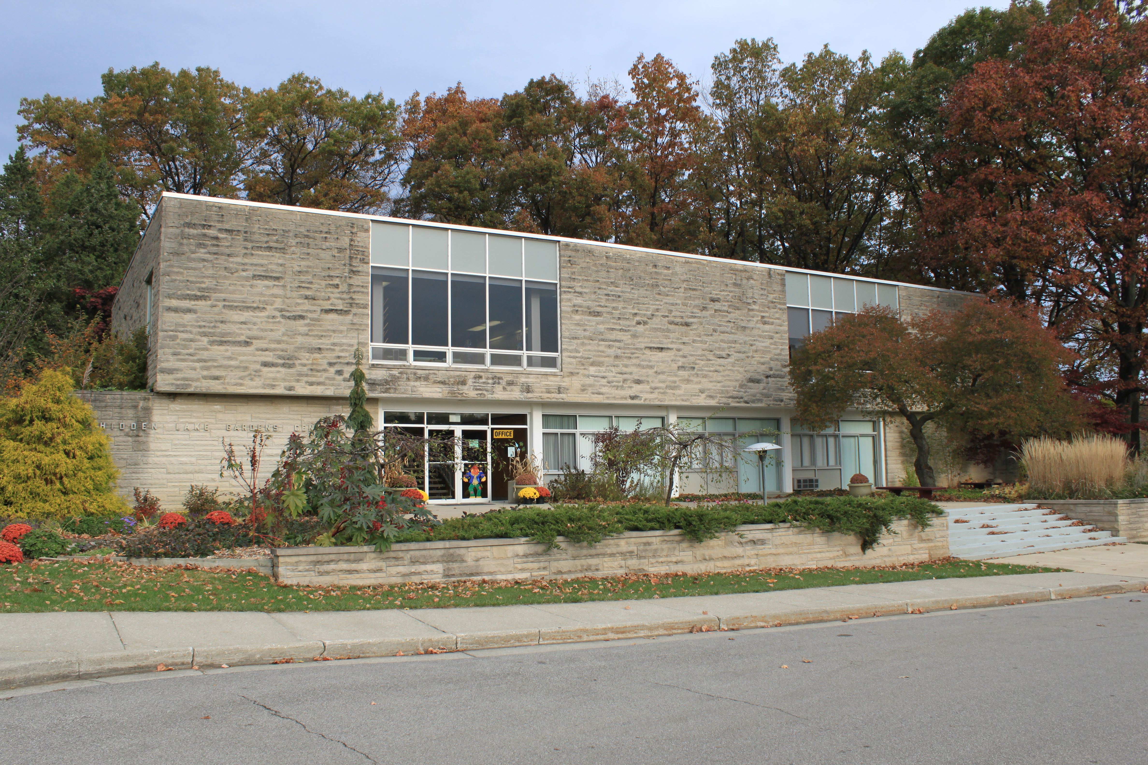 Hidden Lake Gardens Visitor Center, Tipton, Michigan